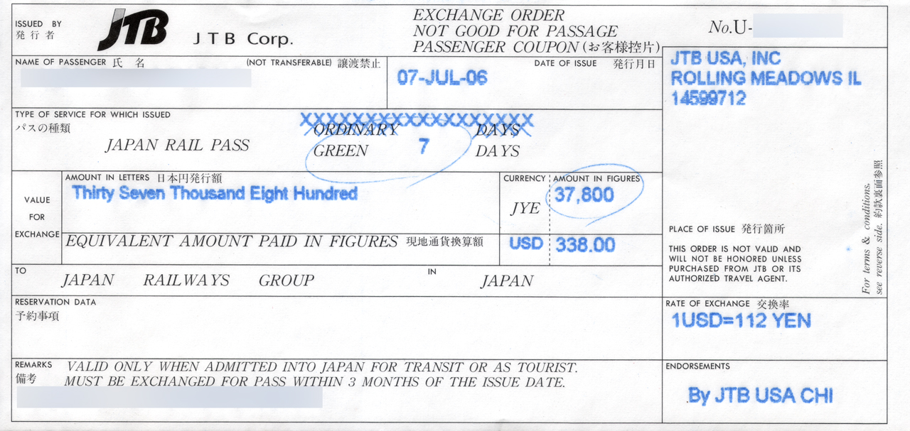 Japan Rail Pass